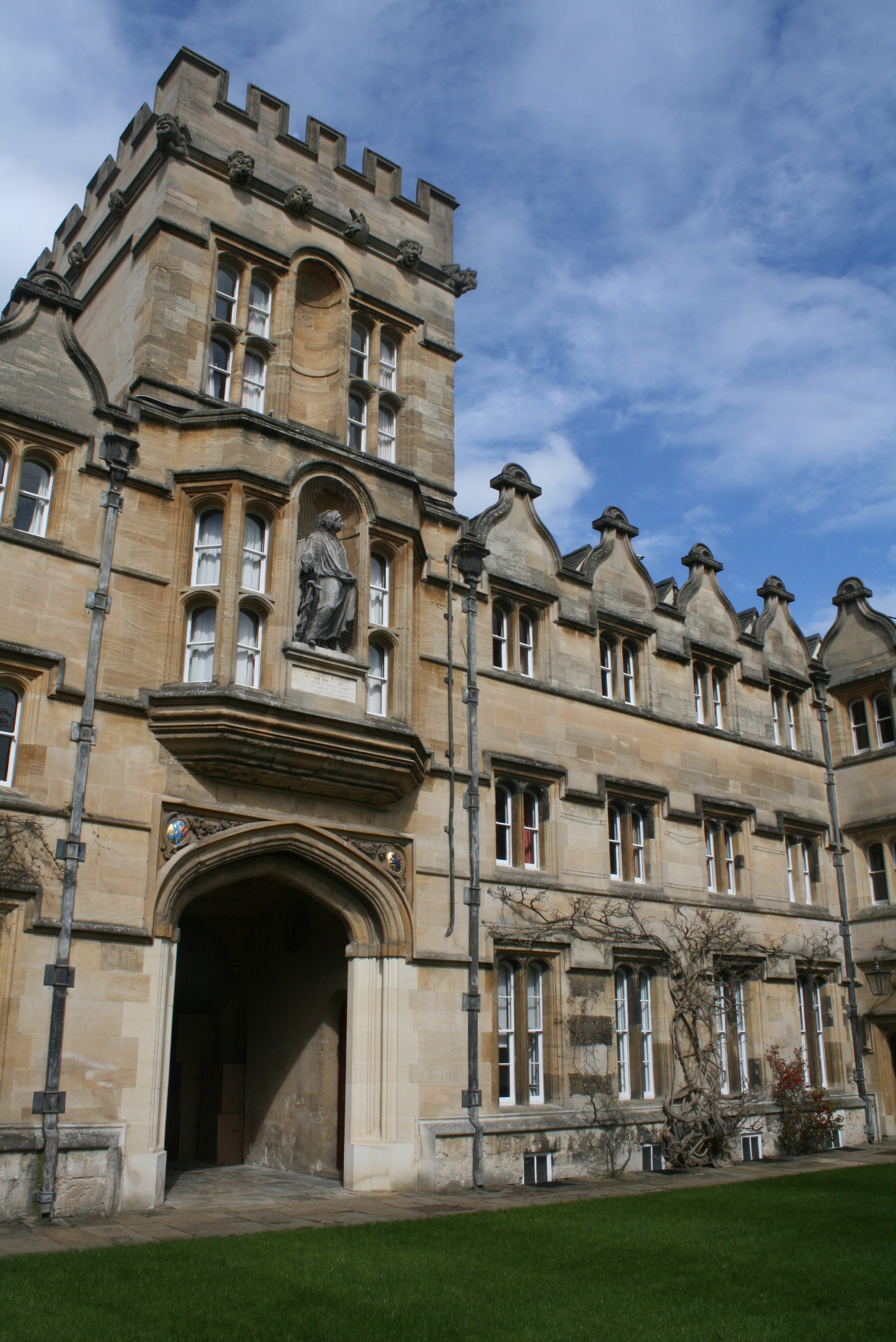 Radcliffe Quadrangle, University College, Oxford, England (1716-19)